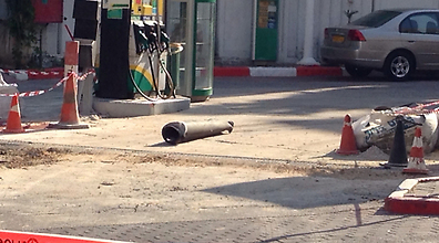 Rocket pieces fall in central Israel. The rocket was intercepted by Iron Dome. For more updates: The Israel Defense Forces Facebook The Israel Defense Forces blog Follow us on Twitter